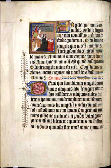 This is a remarkably large and lavishly illuminated Book of Hours, combining French and English styles. The first leaf contains a list of obits members of the royal family and of the 4th, 5th, and 6th Earls of Ormond and their wives, so it was probably made for Anne Boleyn's grandfather, Thomas Butler (1426-1515), 7th Earl of Ormond, or a member of his family. It was given in the early 16th century to a chapel at 'Suthwyke', probably Southwick in Hampshire. This small miniature, showing a kneeling layman aided by an angel, introduces a prayer to a guardian angel. Although it is not a life-like 'portrait', the layman is doubtless intended to represent the original owner of the manuscript.